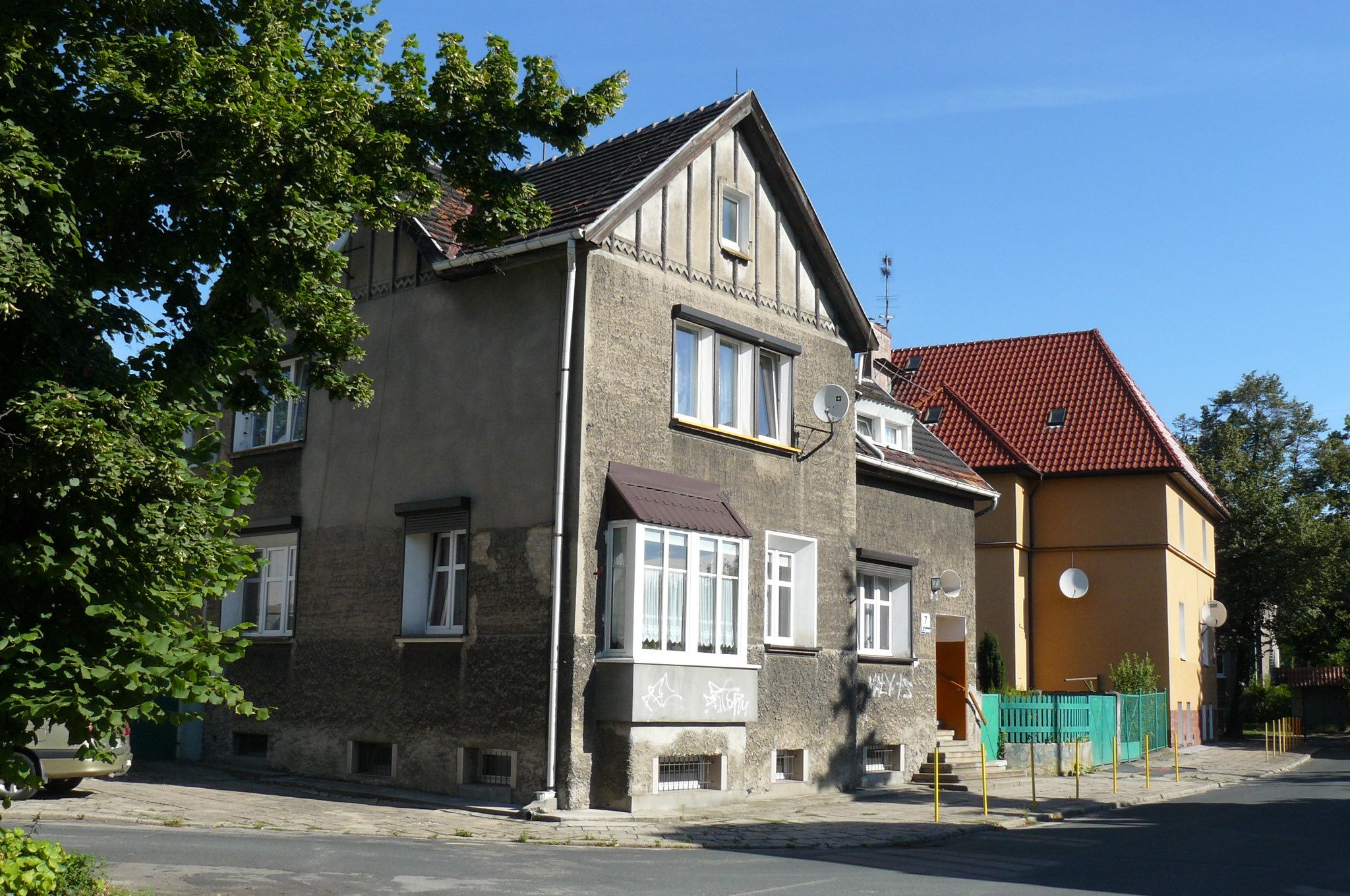 Lipowy Square in Poznań.